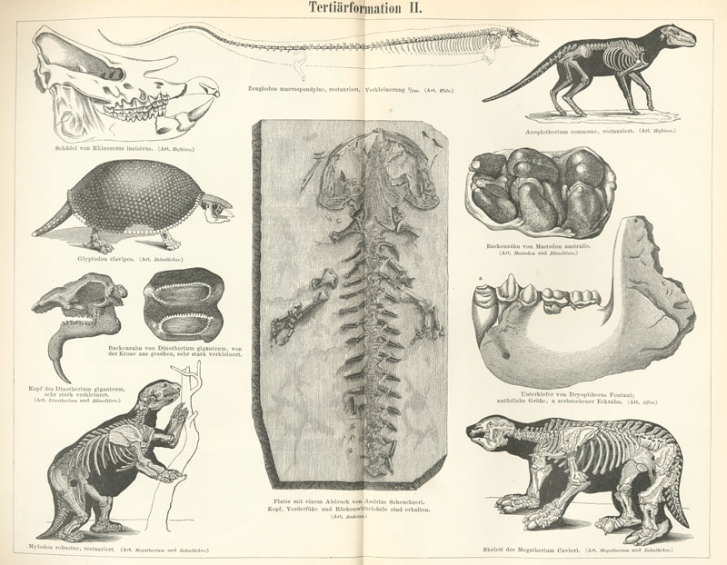 Some fossils and life restaurations of the Neogene (former "Tertiary") fauna.